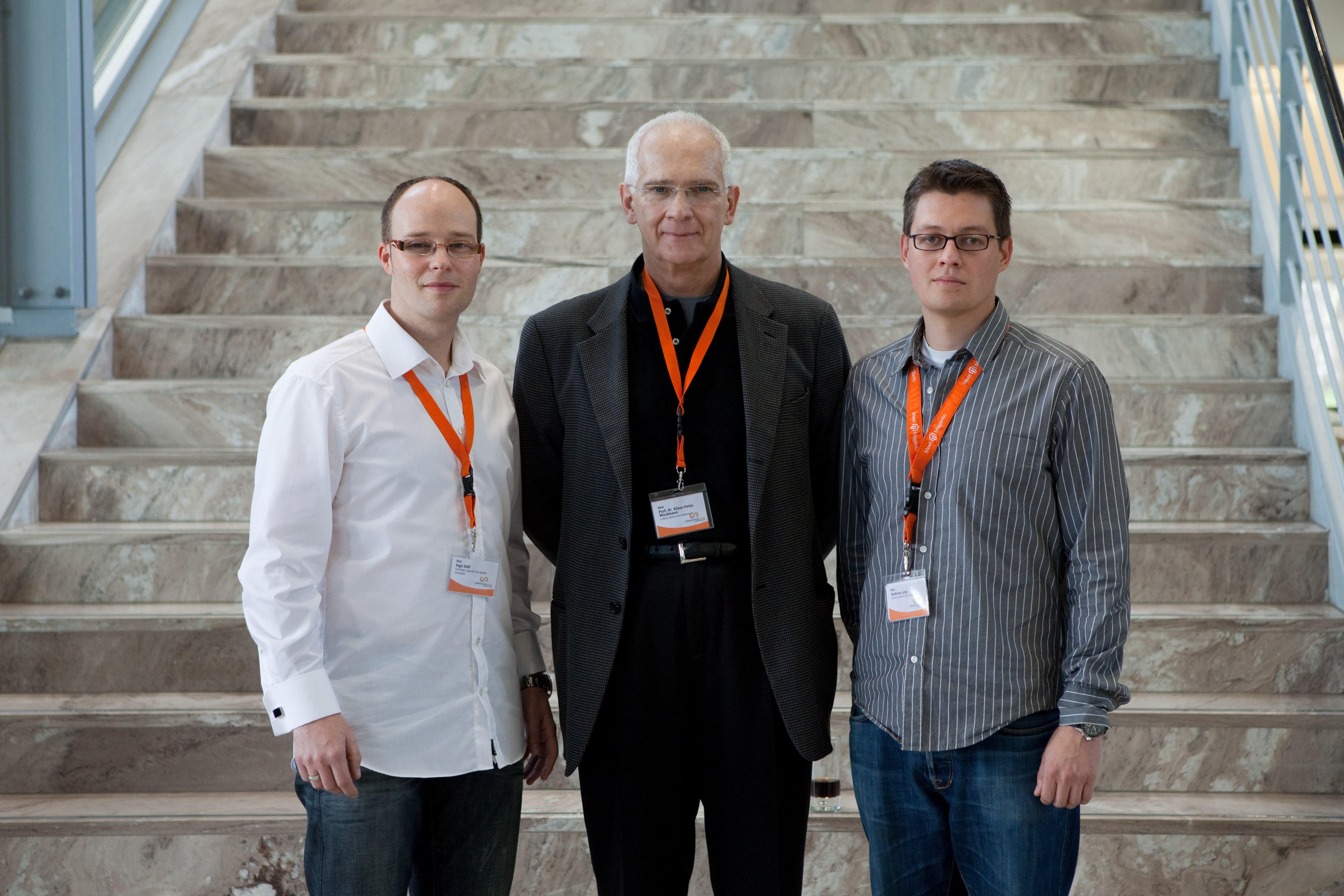 Ingo Stoll, Prof. Dr. Klaus-Peter Wiedmann und Andreas Lenz (v.l., Initiatoren des ConventionCamp)